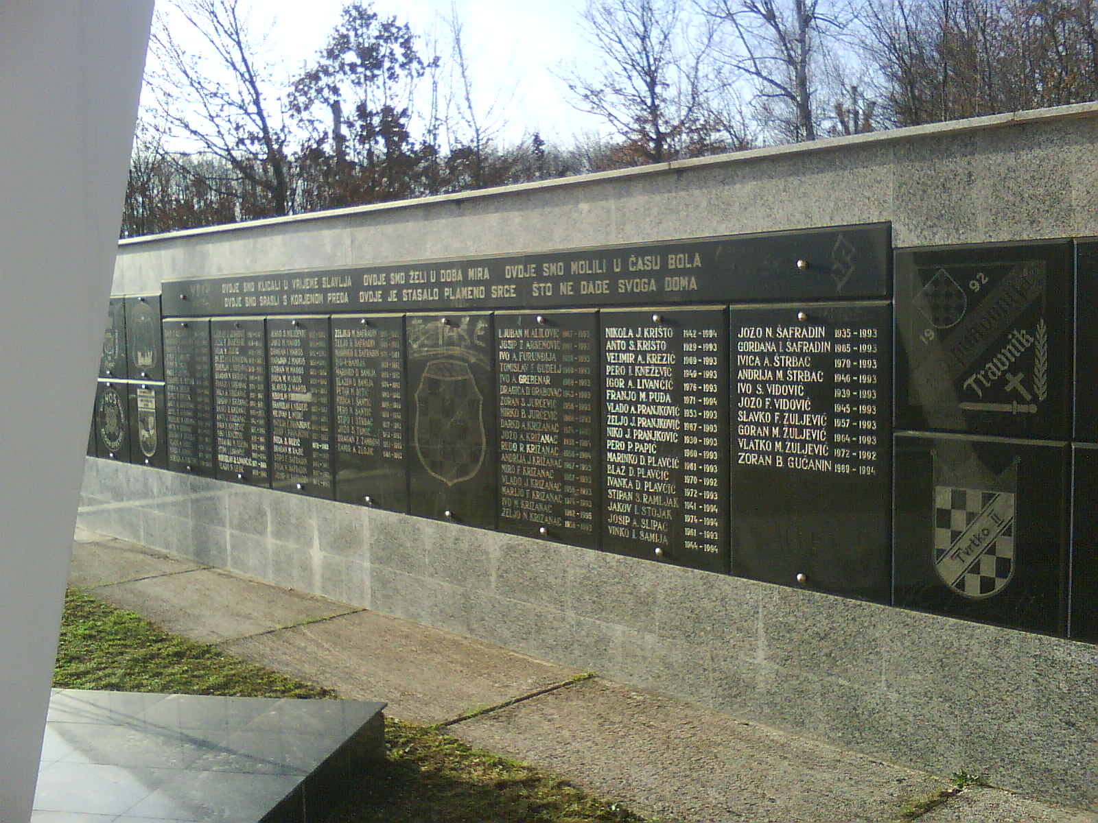 Monument in a tribute of victims from Križančevo selo killings,a war crime comitted over Croats by Bosniak troops